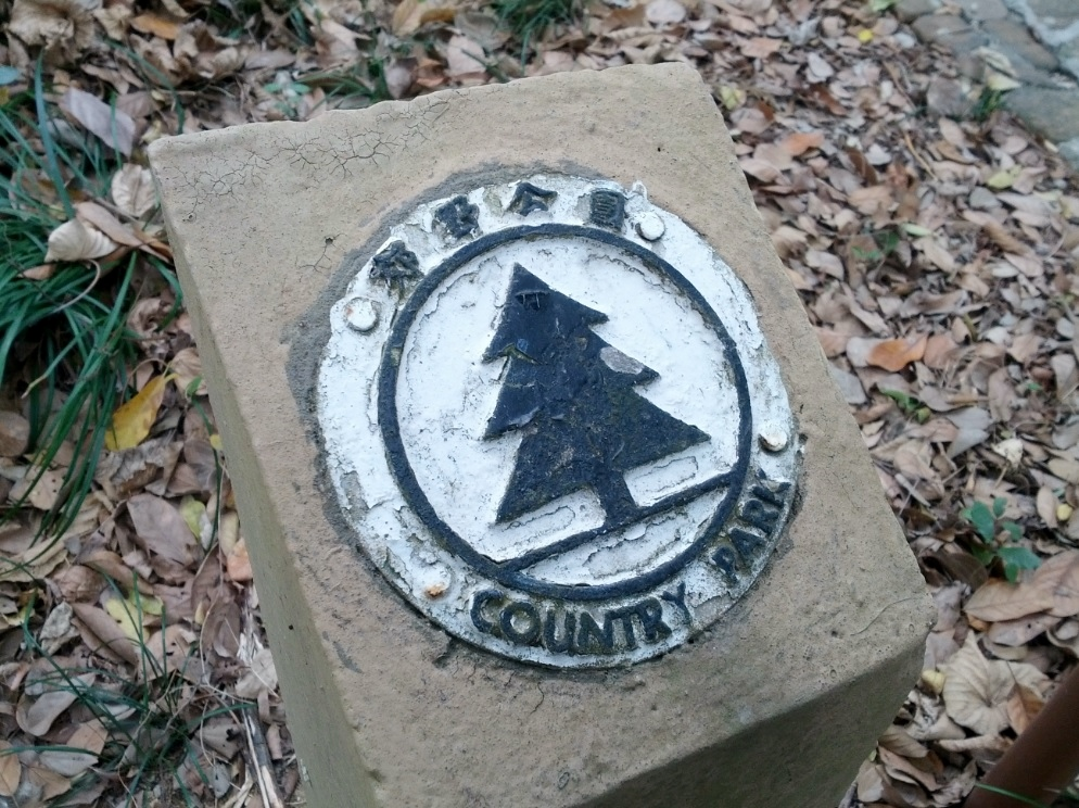 An old country park sign in Ping Chau Plover Cove (Extension) Country Park